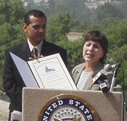 U.S. Senator Barbara Boxer presents her Conservation Champion award to Friends of the Los Angeles River, a non-profit organization dedicating to restoring the waterway. Appearing with Senator Boxer is Assembly Member Antonio Villaraigosa. Boxer and Villaraigosa spoke from Atwater Park, which overlooks an especially beautiful section of the Los Angeles River.